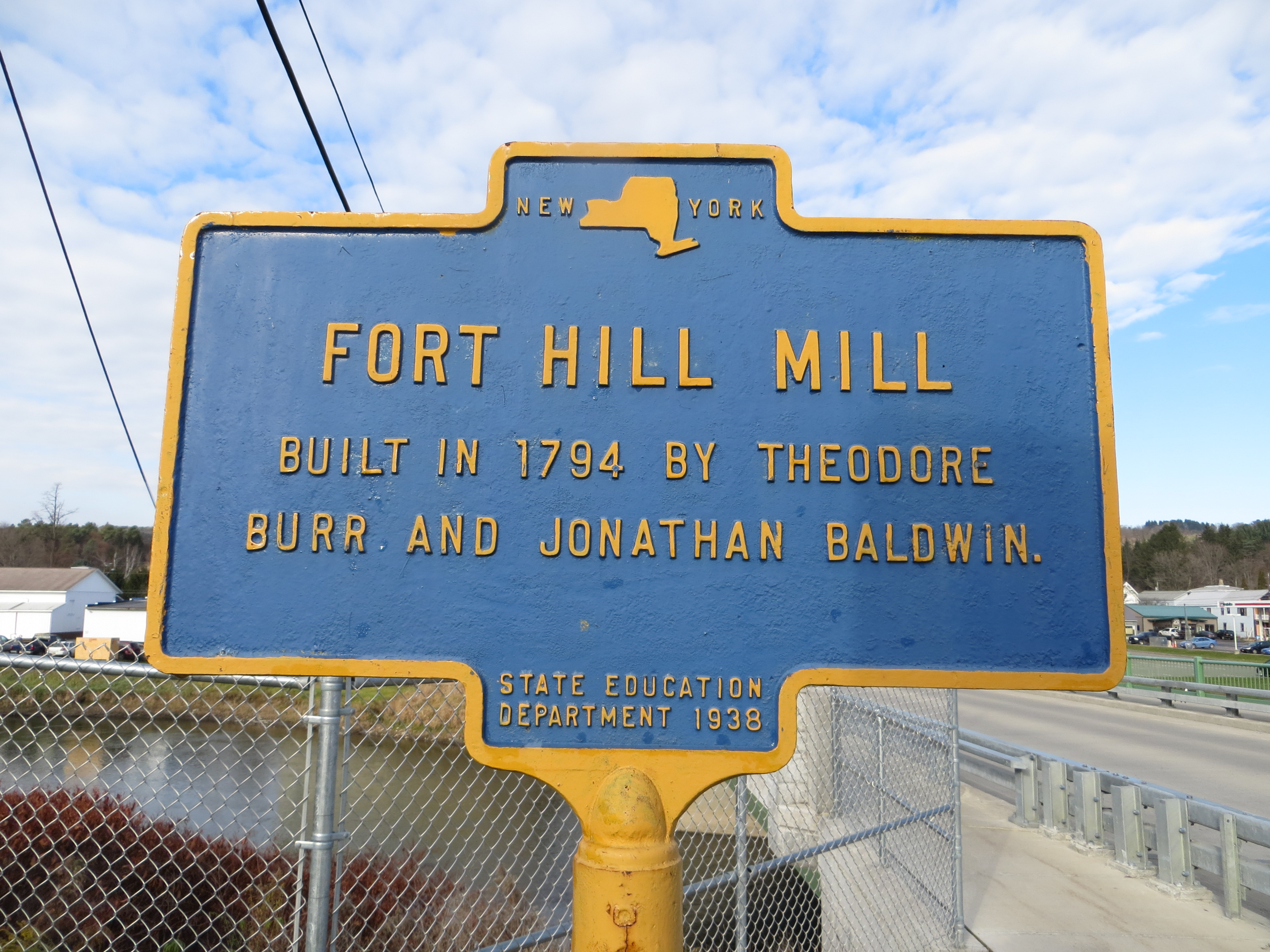 Fort Hill mill built in 1794 by Theodore Burr and Jonathan Baldwin in Oxford, NY.